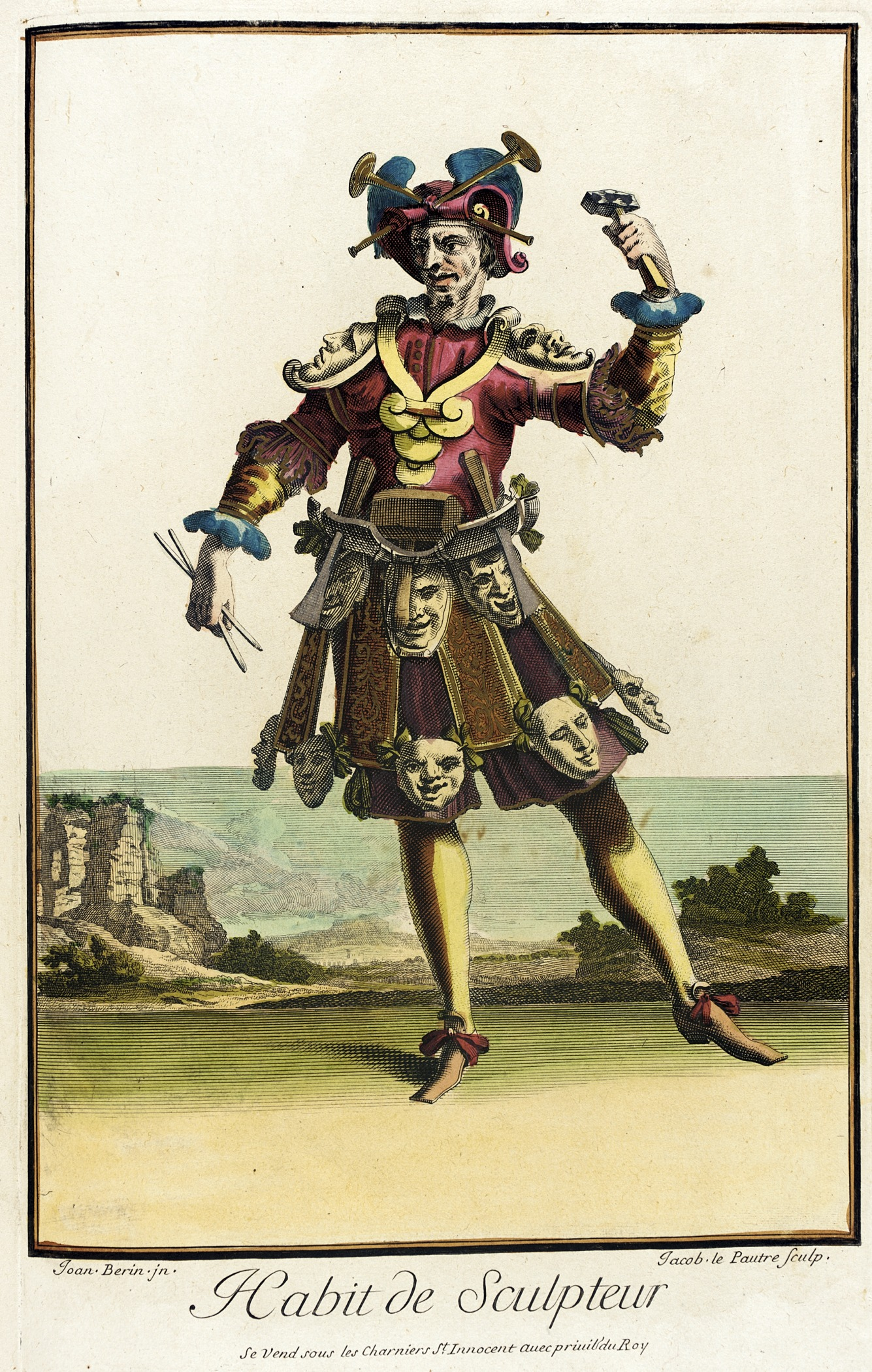 France, Paris, circa 1682, bound 1703-1704 Prints Hand-colored engraving on paper Sheet: 14 3/8 x 9 3/8 in. (36.51 x 23.81 cm); Composition: 12 x 7 1/2 in. (30.48 x 19.05 cm) Purchased with funds provided by The Eli and Edythe L. Broad Foundation, Mr. and Mrs. H. Tony Oppenheimer, Mr. and Mrs. Reed Oppenheimer, Hal Oppenheimer, Alice and Nahum Lainer, Mr. and Mrs. Gerald Oppenheimer, Ricki and Marvin Ring, Mr. and Mrs. David Sydorick, the Costume Council Fund, and member of the Costume Council (M.2002.57.133) Costume and Textiles